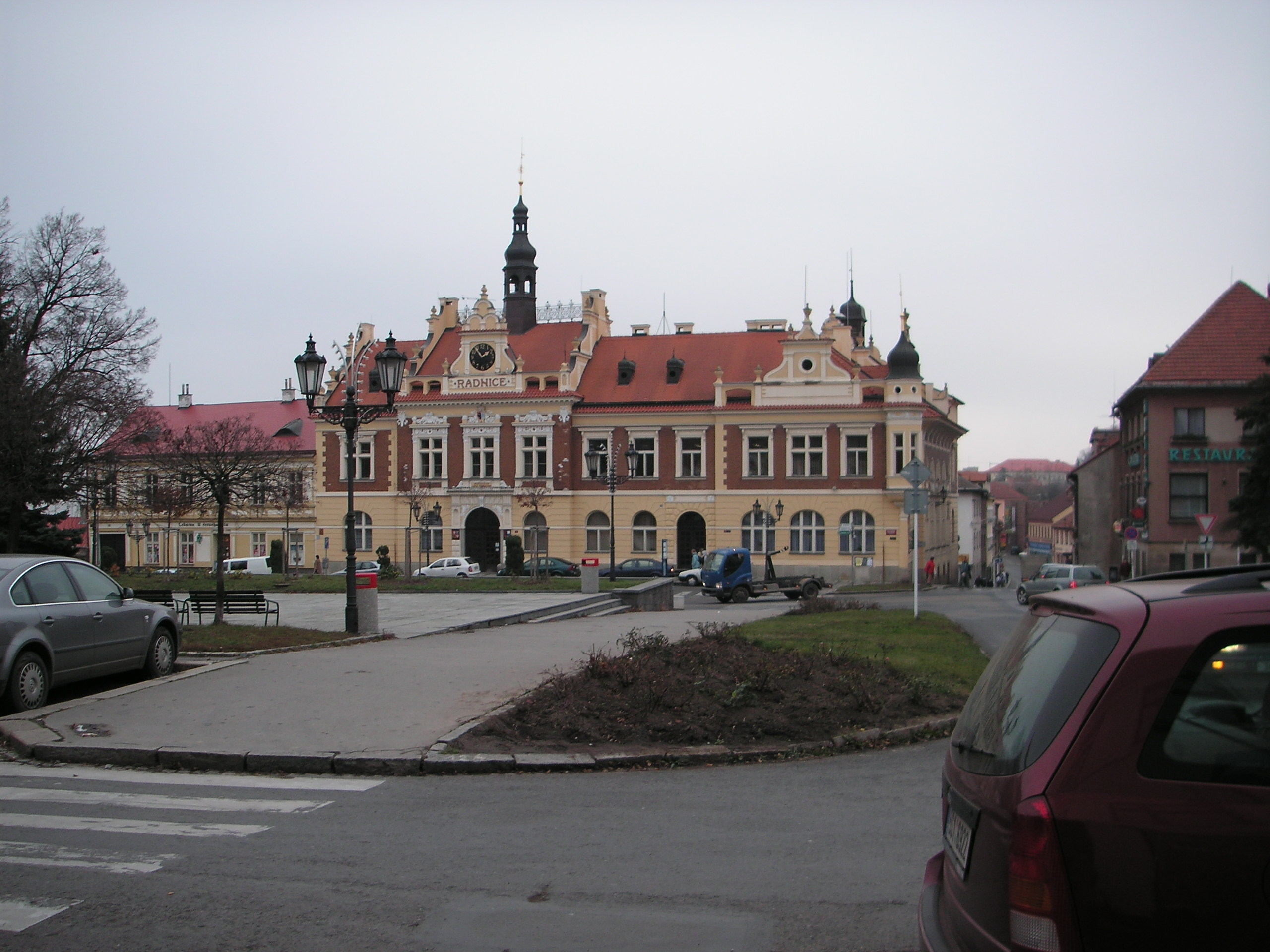 Town hall in Hořovice, Czech Republic.